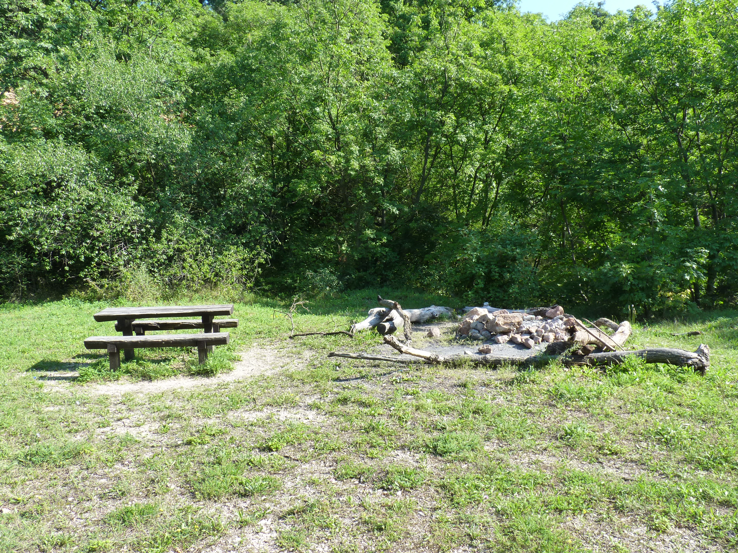 Resting place at Nagy-Hárs Hill